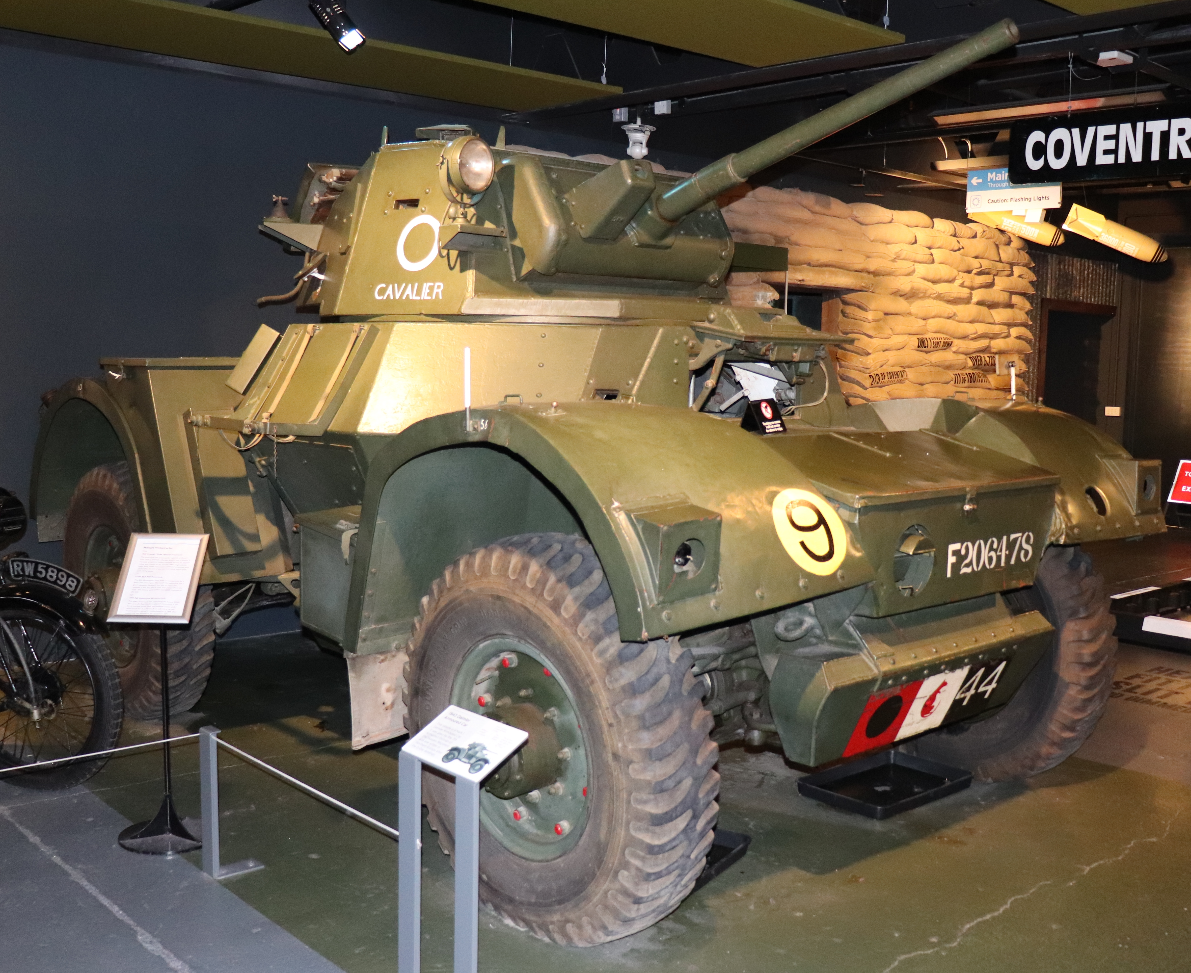 1943 Daimler Armoured Car Mark 1 Taken in the Coventry Transport Museum